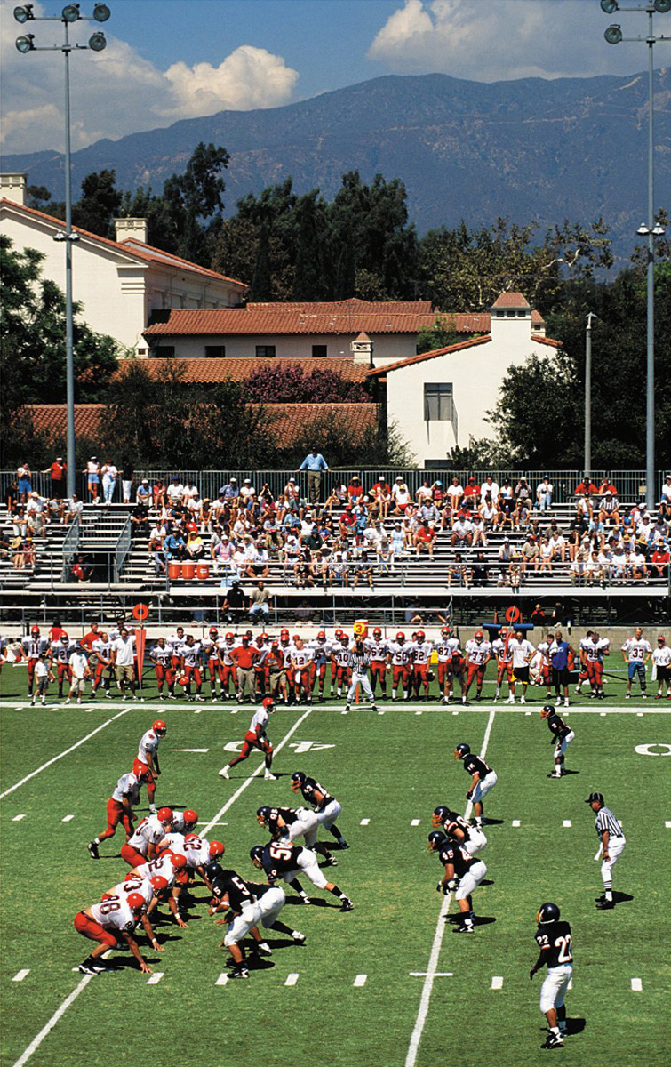 A football game at Meritt Field